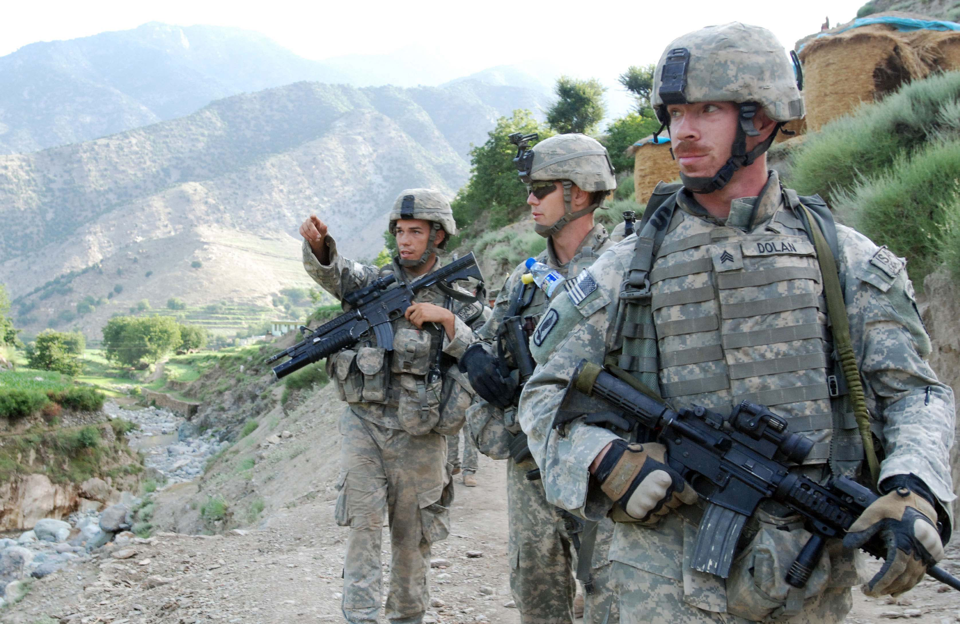 U.S. Army paratroopers from Red Platoon, Charlie Troop, 1st Squadron, 91st Cavalry Regiment (Airborne) navigate to Observation Post Chuck Norris in Dangam, Afghanistan on July 25, 2007, in Dangam, Afghanistan.